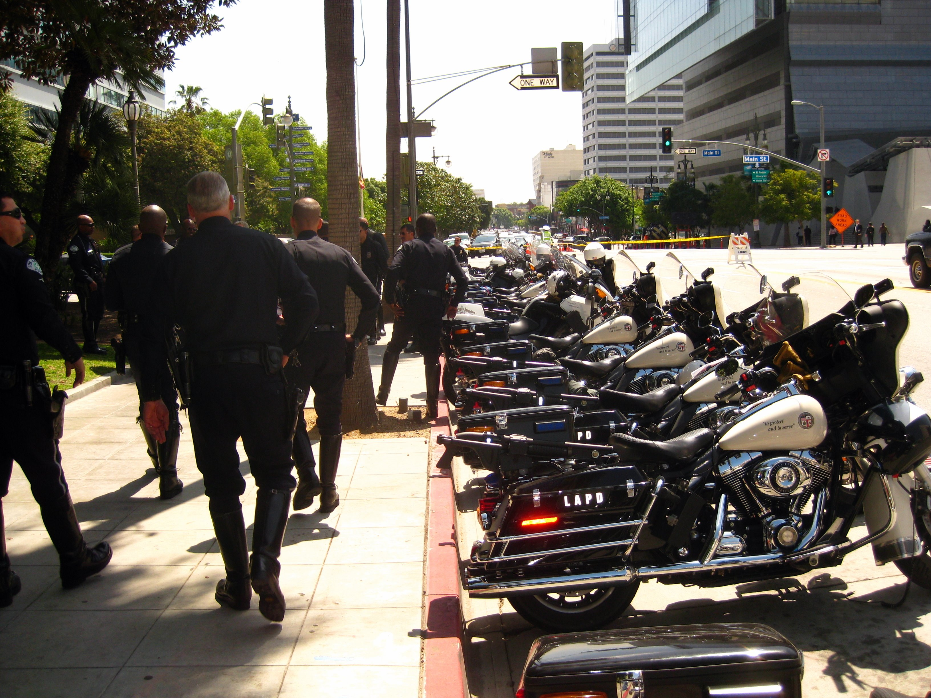 Some LAPD's motorcycles